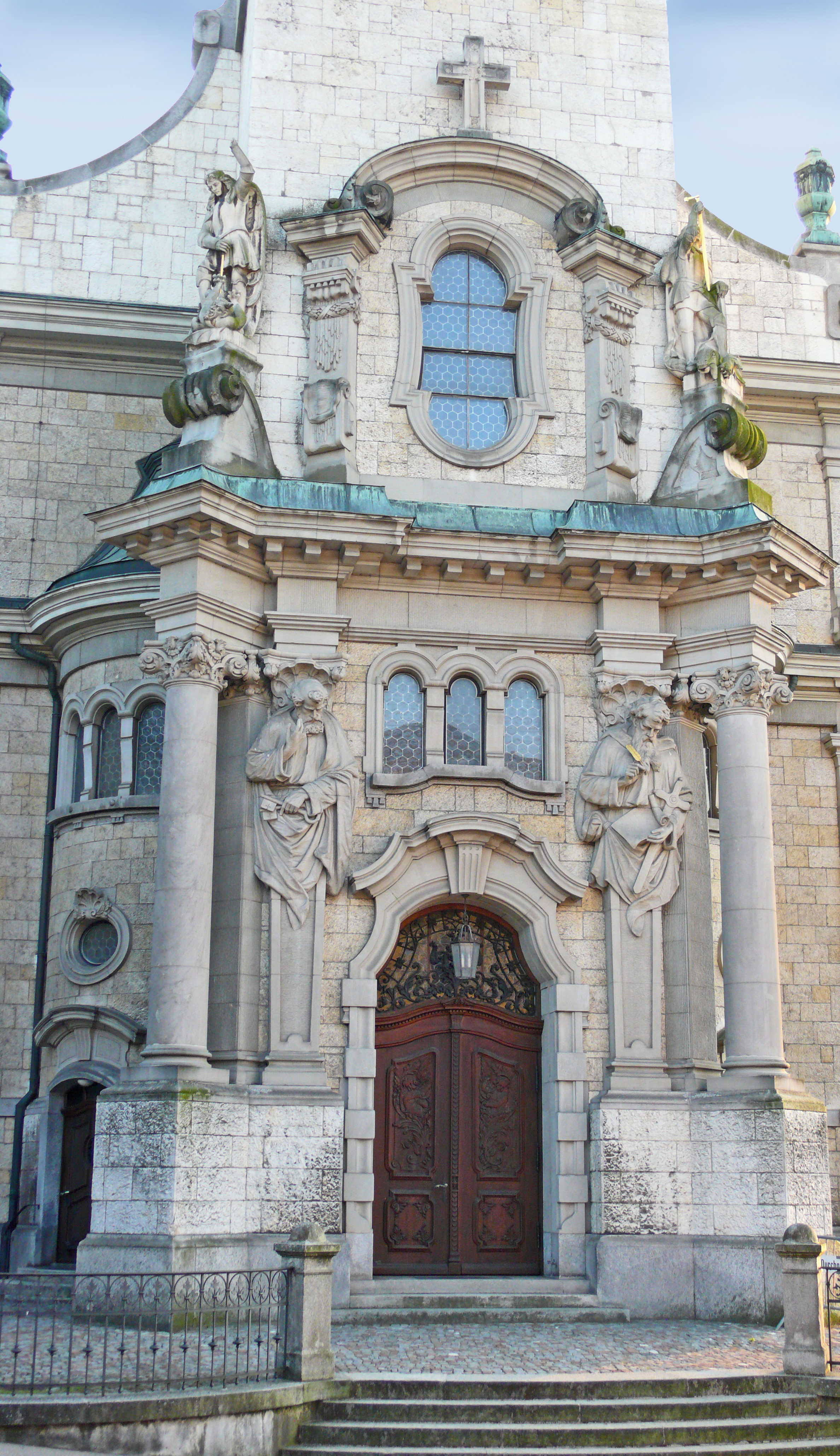 North portal of Saint Nicholas Church in Frauenfeld, Switzerland